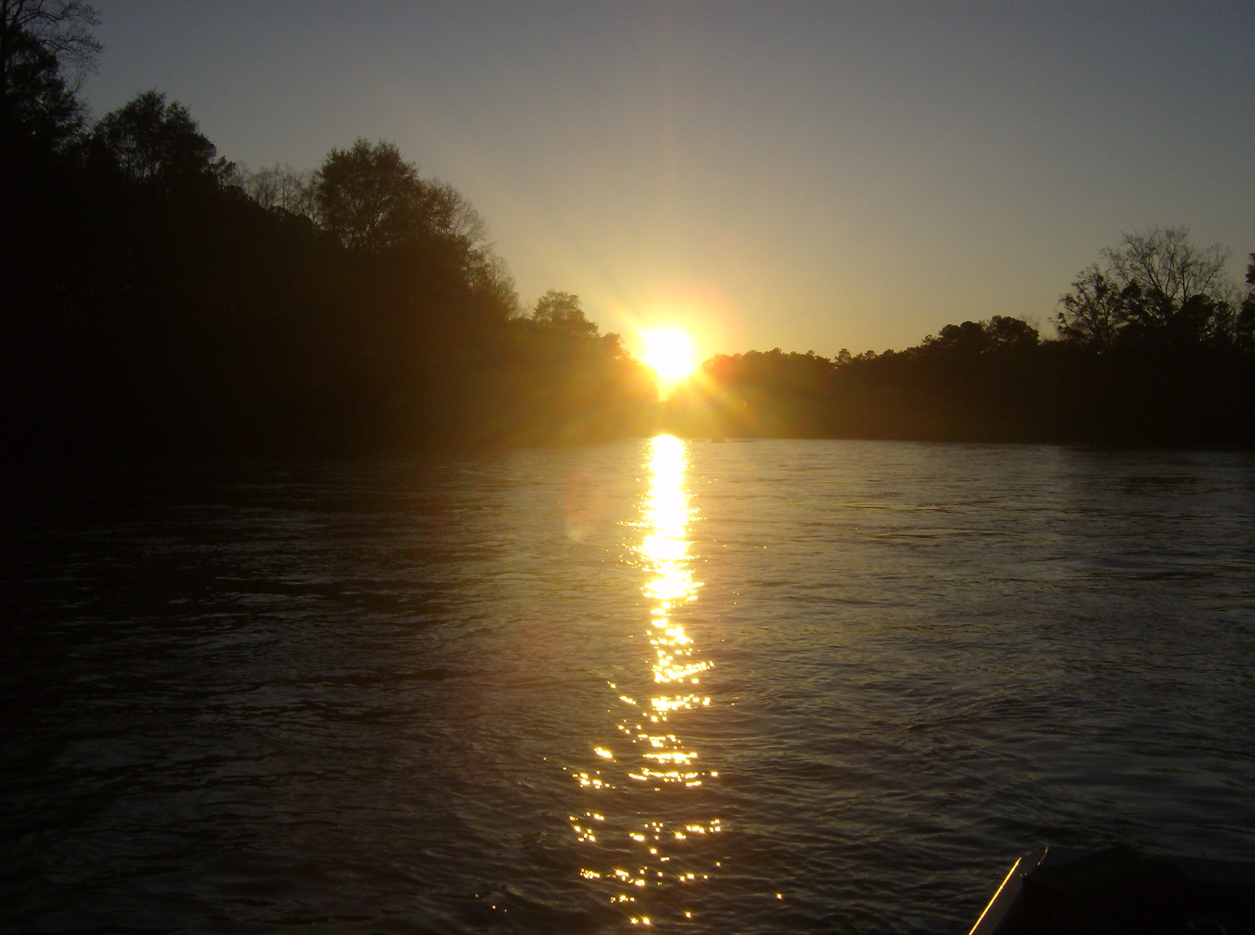 Looking to the west on the Chattahoochee RIver National Recreation area just below Island Ford Shoals near Roswell, GA. Chattahoochee RIver National Recreation Area/.